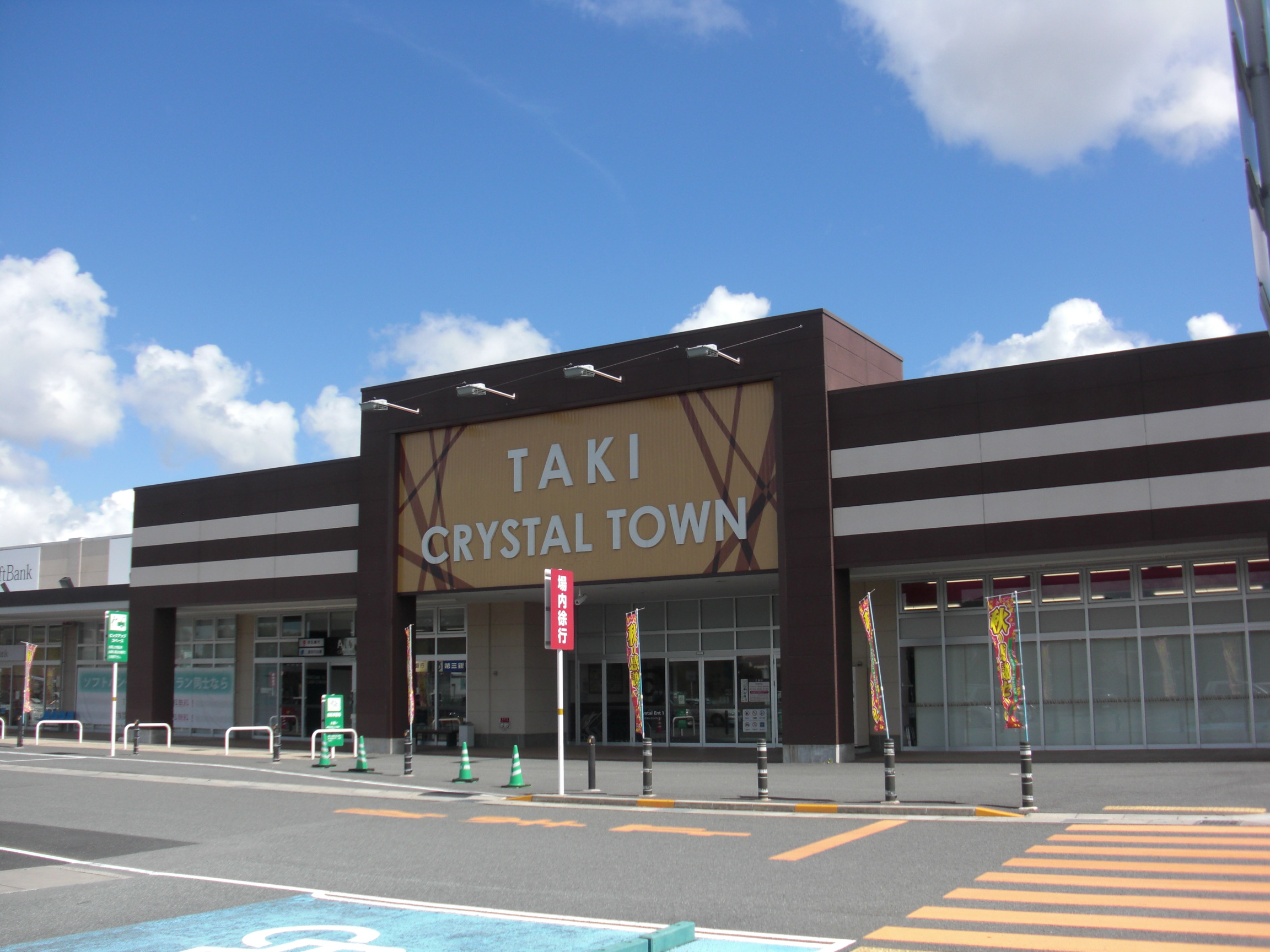 This is a shopping center in Japan.It is called "Taki Crystal Town Shopping Center".